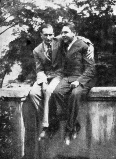 Poets Philippe Soupault (left) and Vítězslav Nezval (right).